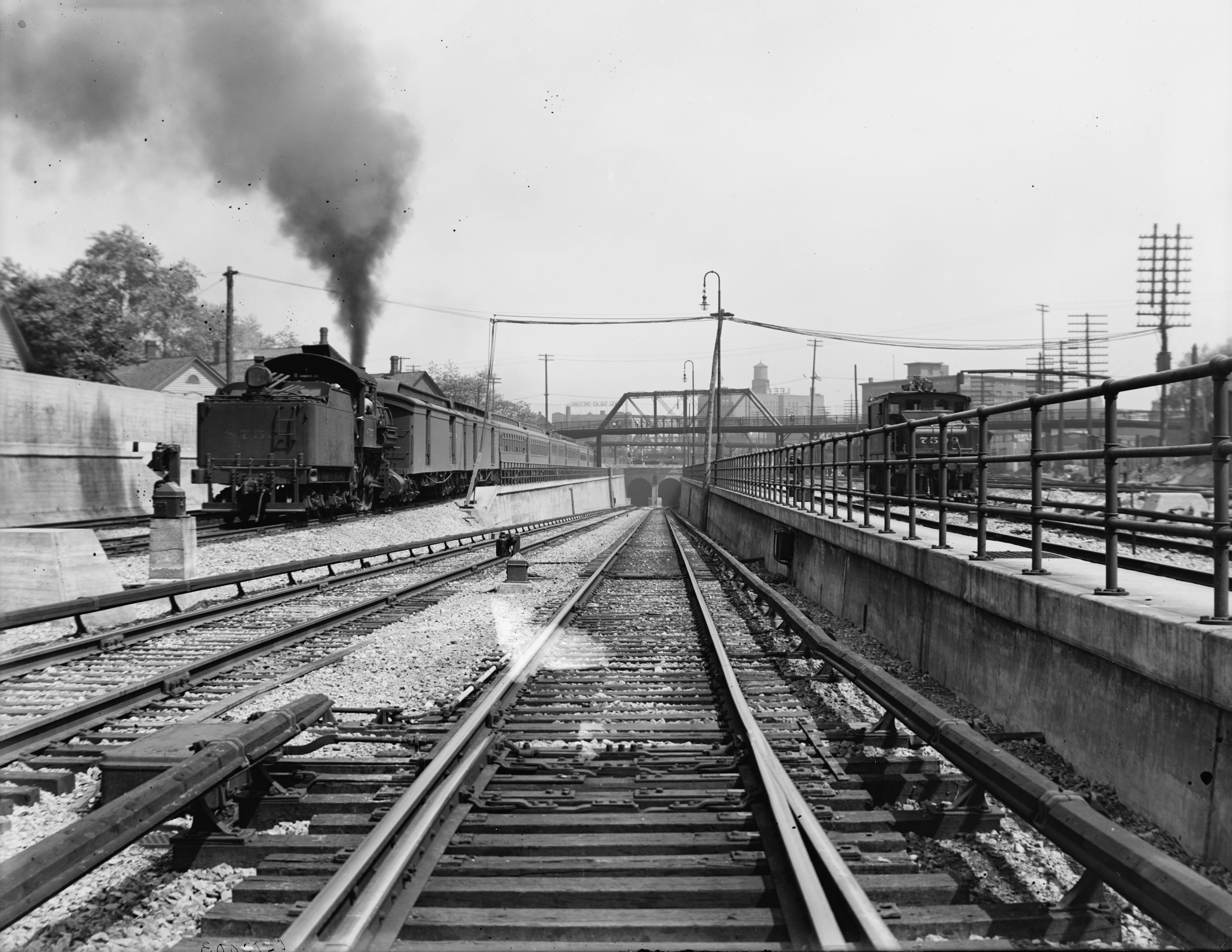 Detroit River tunnel, Detroit, Michigan. Medium: 1 negative : glass ; 8 x 10 in. Part of: Detroit Publishing Company Photograph Collection Reproduction Number: LC-D4-500003 (b&w glass neg.) Call Number: LC-D4-500003 [P&P] Repository: Library of Congress Prints and Photographs Division Washington, D.C. 20540 USA Notes: o Title from jacket. o "B 304" on negative. o Detroit Publishing Co. no. 500003. o Gift; State Historical Society of Colorado; 1949.